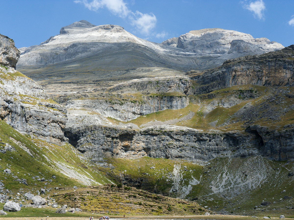 Valle de Ordesa This is a photography of a Site of Community Importance in Spain with the ID: ES0000016. Natura2000 entry, EEA entry